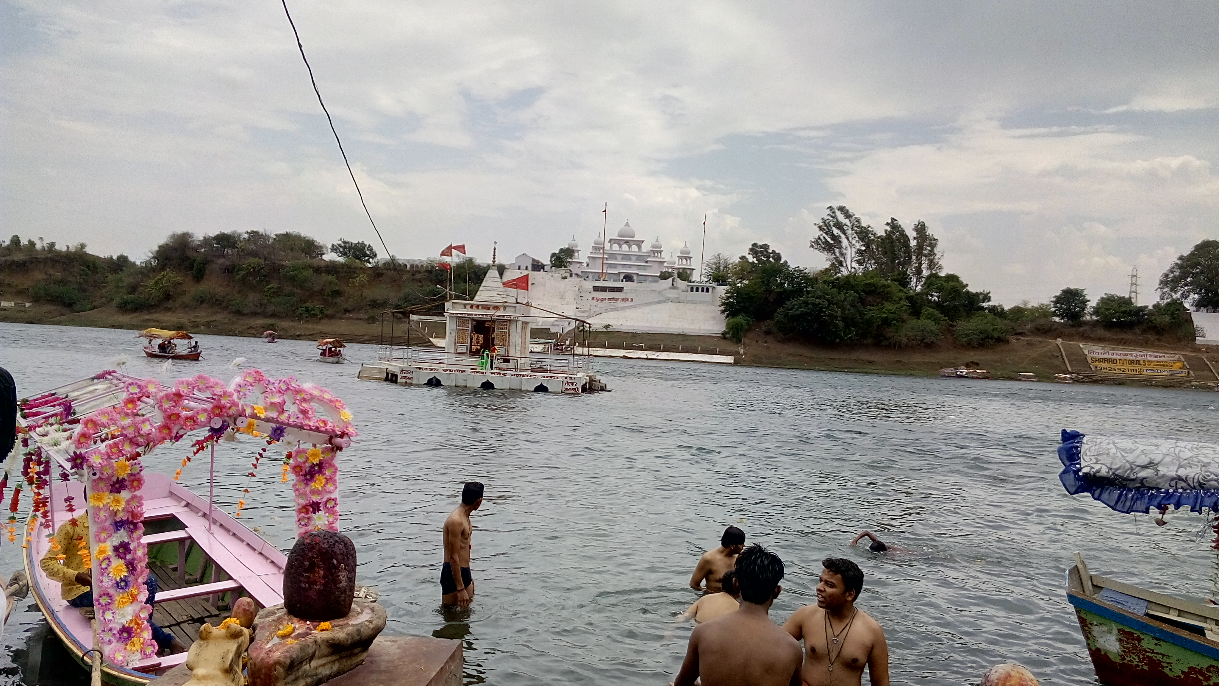 Gwarighat, Jabalpur, Madhya Pradesh India